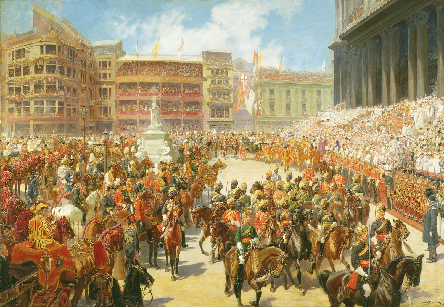 Queen Victoria arriving at St Paul's Cathedral